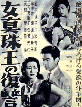 poster of 'Onna Shinjū Ō no Fukushū'